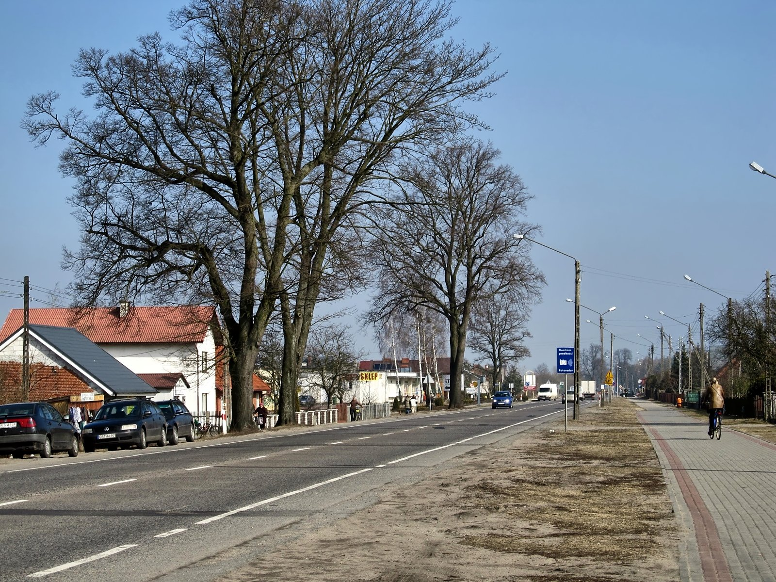 Czarna Woda, Starogardzka Street - National road 22 (so called Berlinka)